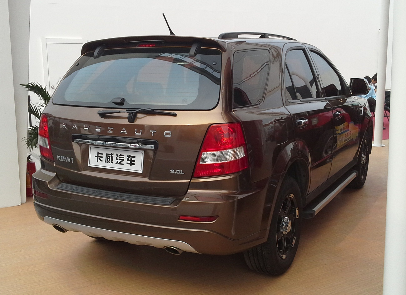 Kawei Auto W1 photographed at the Auto China 2014, Beijing, China.